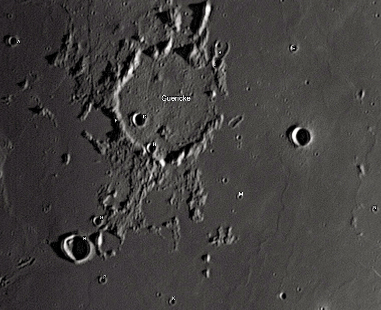 Guericke lunar crater as seen from Earth with satellite craters labeled